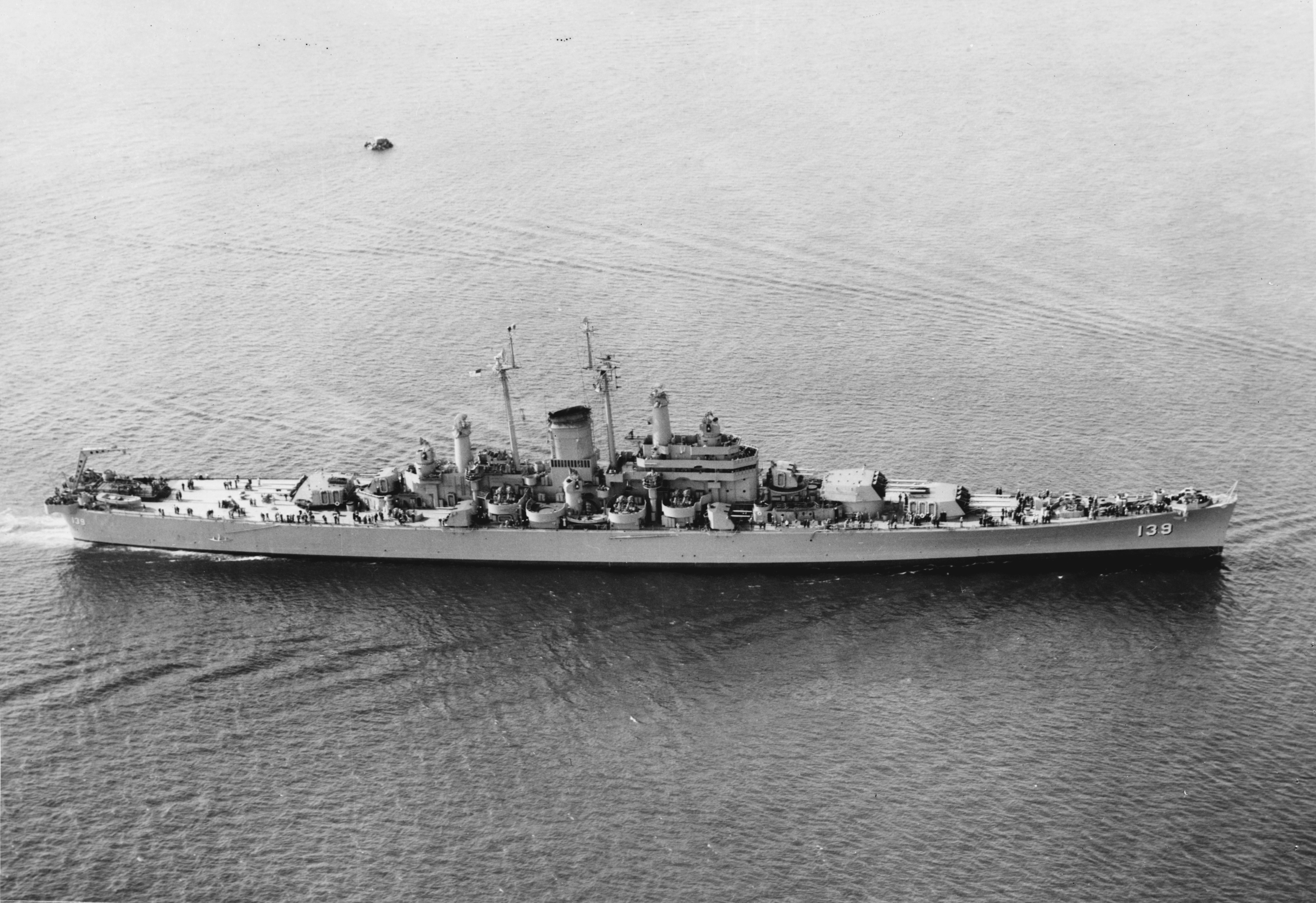 The U.S. Navy heavy cruiser USS Salem (CA-139) off Quincy, Massachusetts (USA), in May 1949.